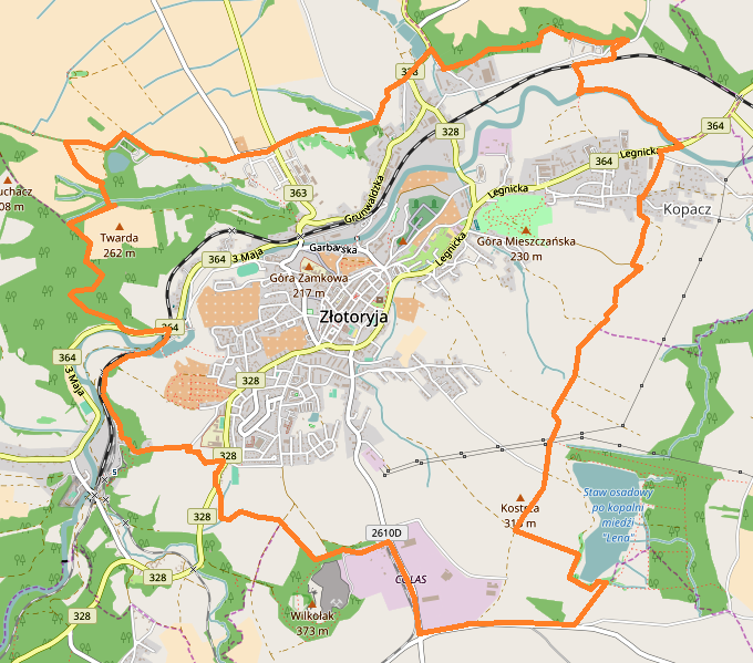 Location map.